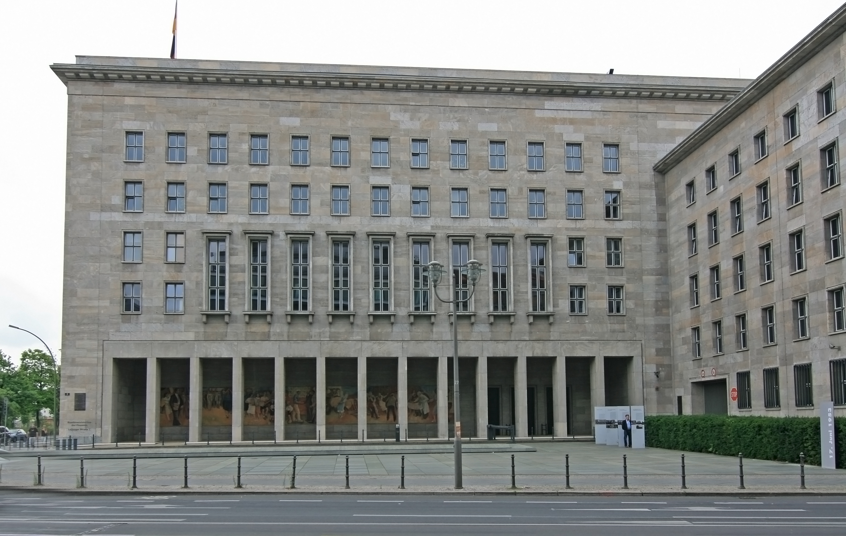 Detlev-Rohwedder-Haus (Bundesministerium der Finanzen), Berlin.